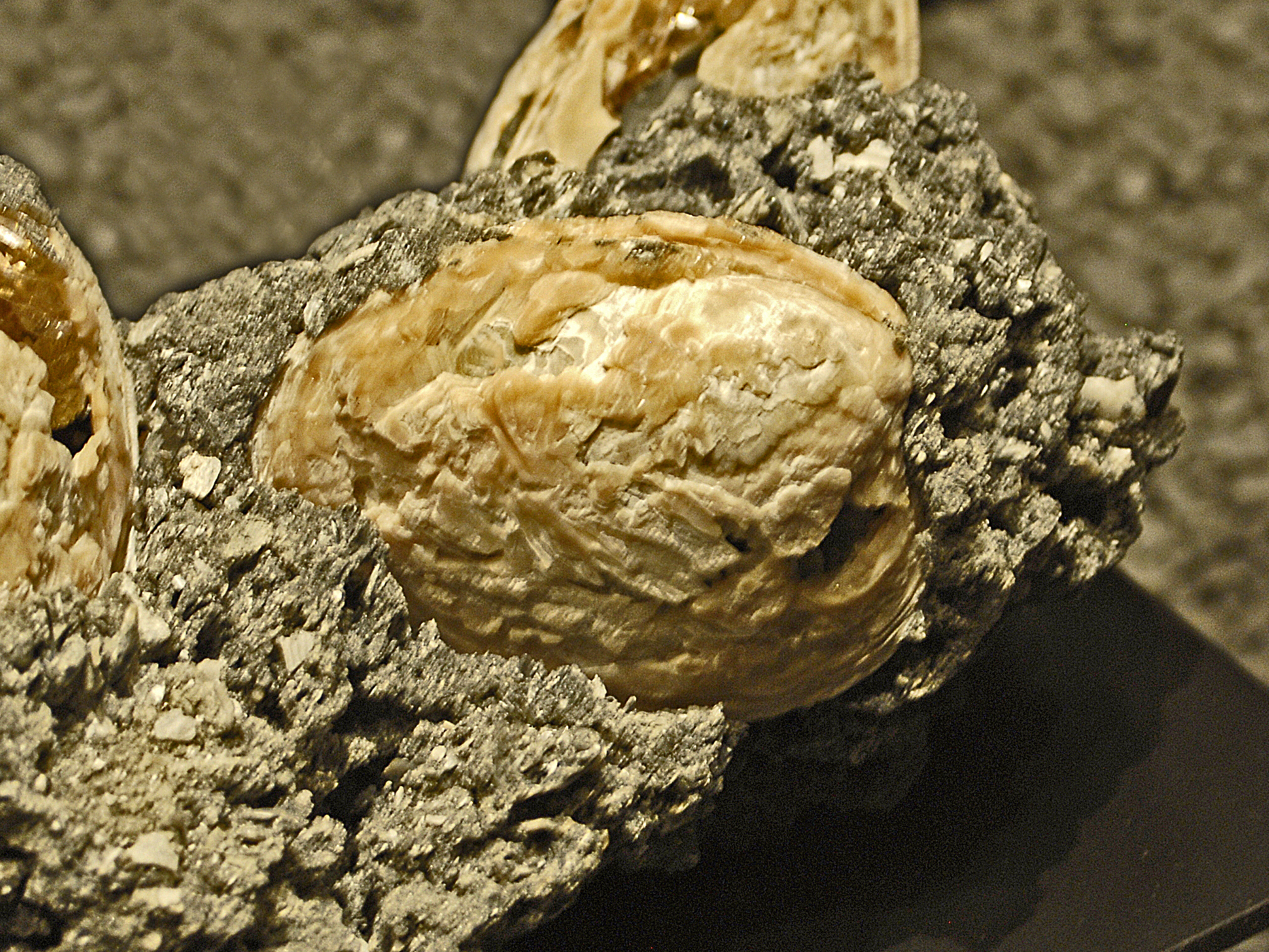 Fossil shell of Mercenaria permagna. Pleistocene of United States. On display at the Museo Civico di Storia Naturale di Milano